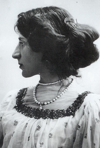 Lady Ottoline Morrell, Bloomsbury Group society and literary hostess, sometimes wore extravagant Turkish robes and dyed her hair a soft purple. Wherever she appeared, Lady Ottoline invariably caught the eye; Quentin Bell, the son of Clive and Vanessa Bell, described her as 'that fantastic baroque flamingo.